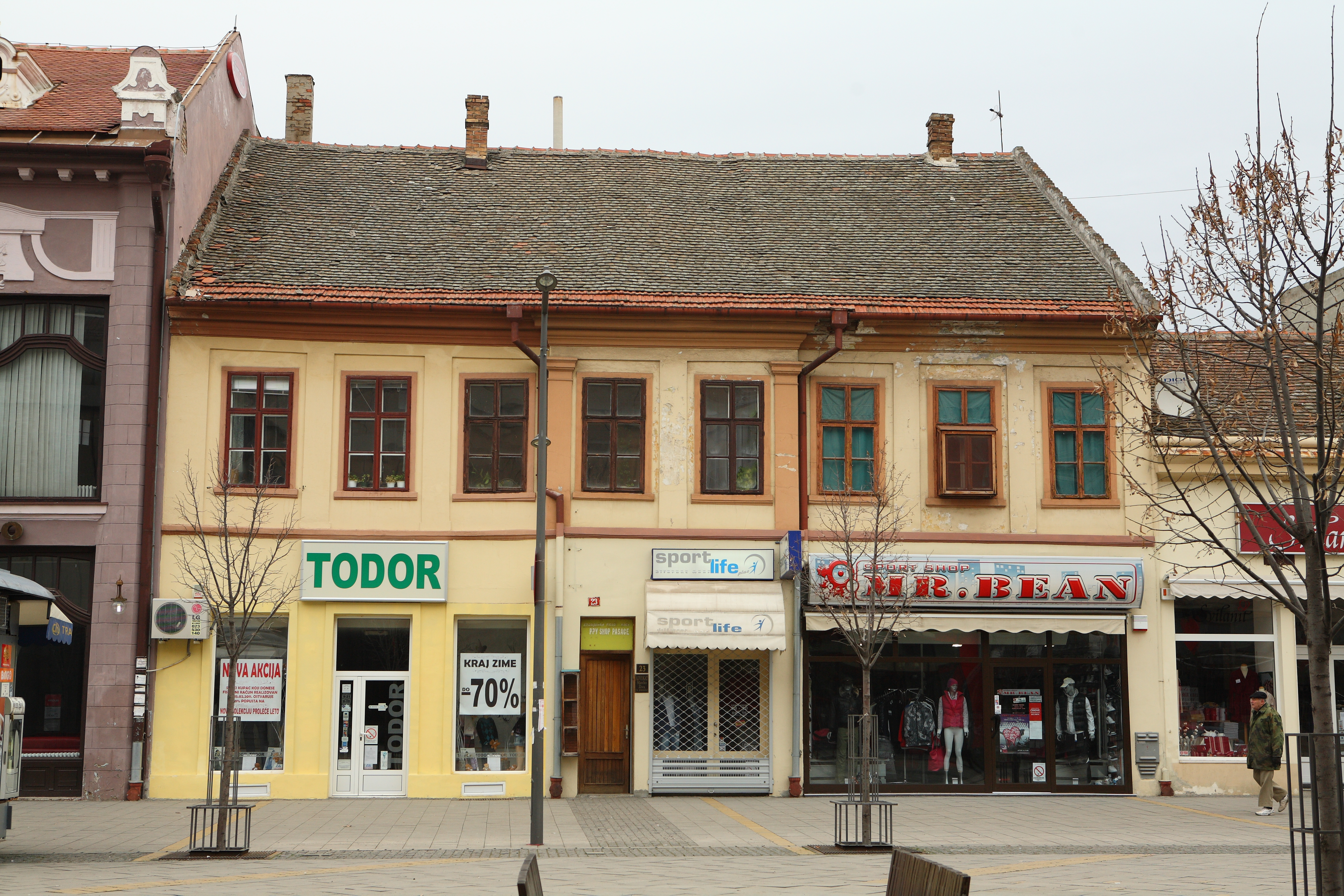 Gaja Adamović House